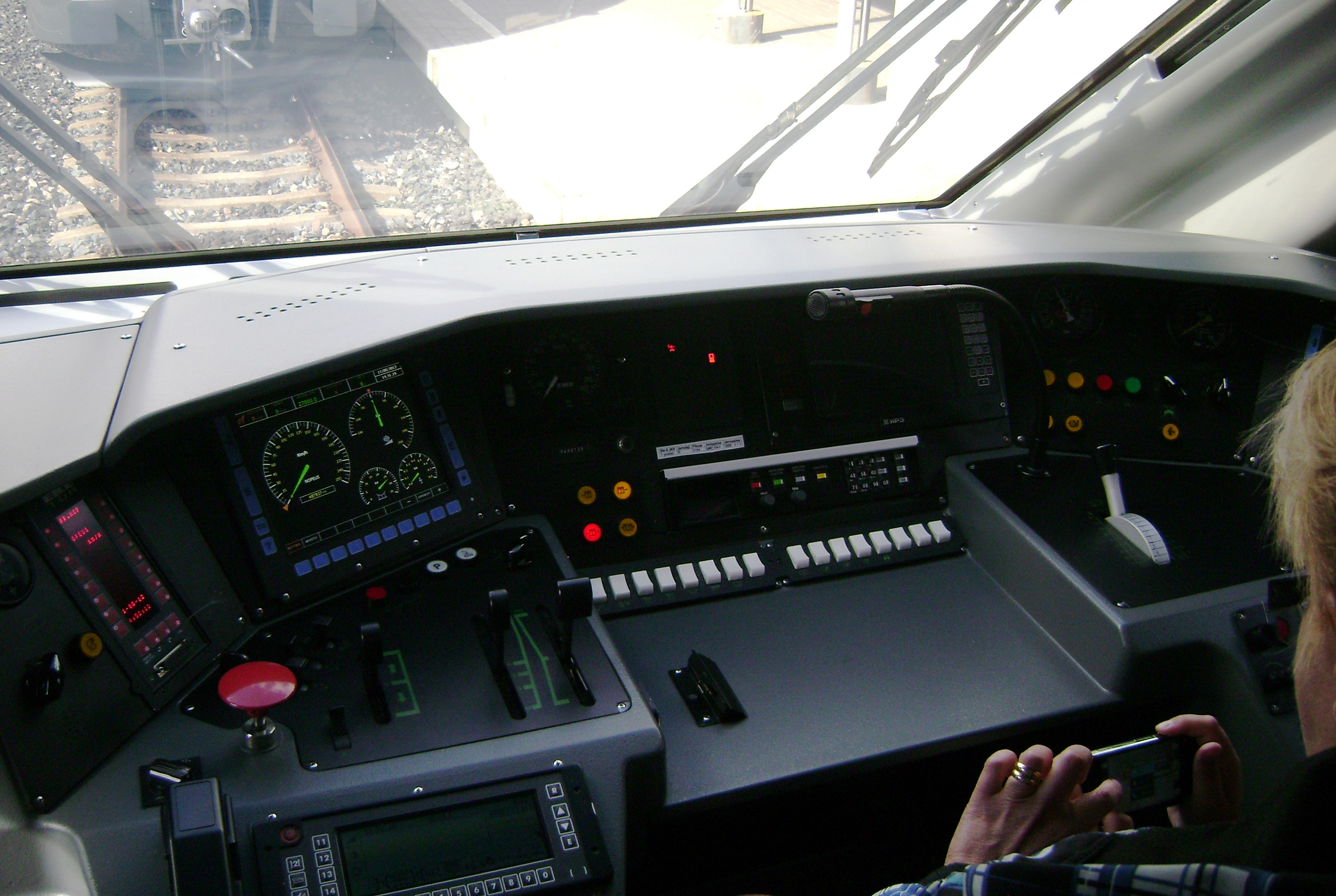 Driver's cab of class Sm6 Allegro high speed train.